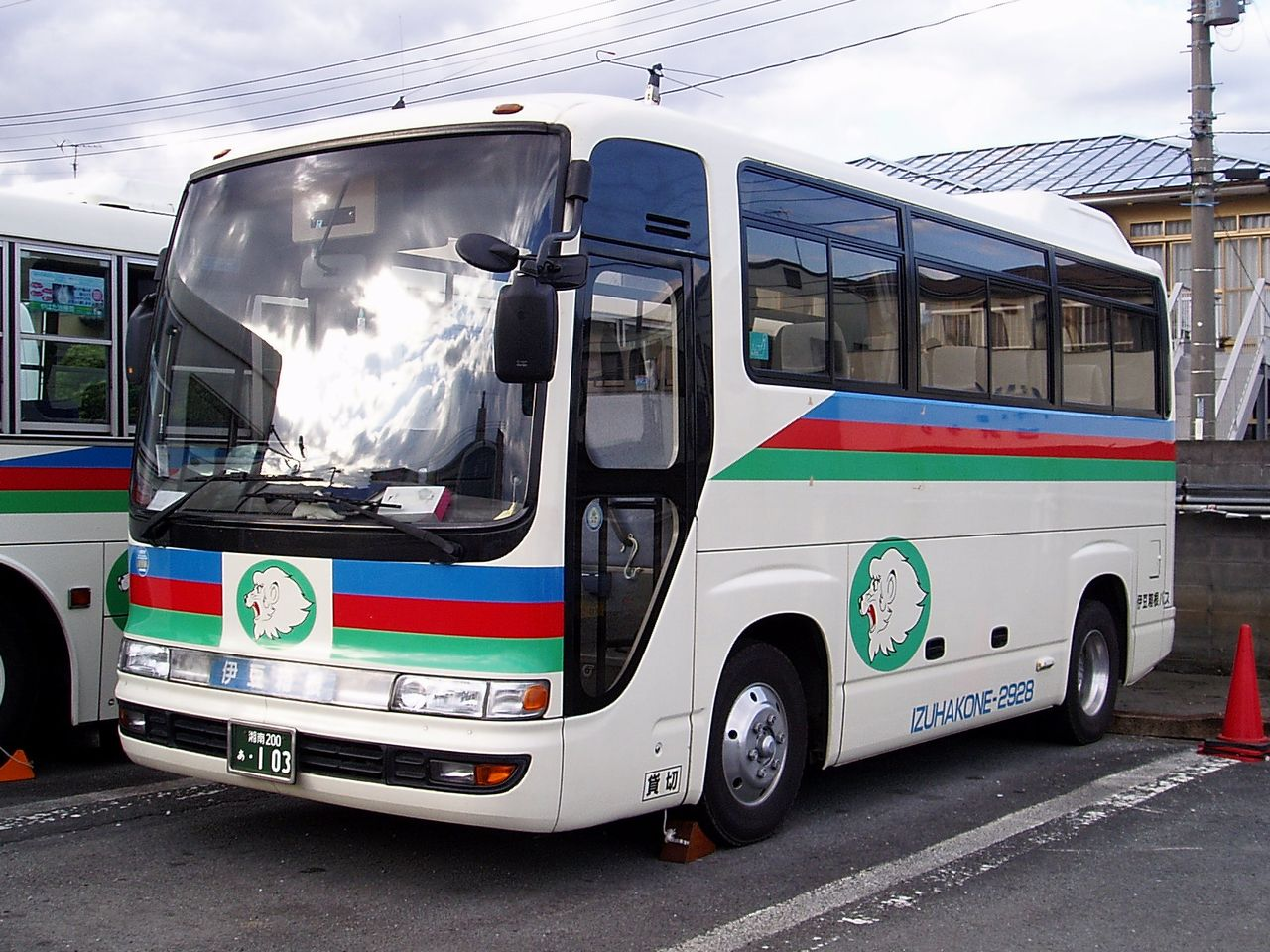 Izuhakone Bus HINO Melpha-7 PB-HR7JJAA 2007.11.19 Photo by Cassiopeia_sweet. This picture is obtaining and photoing permission of the persons concerned.